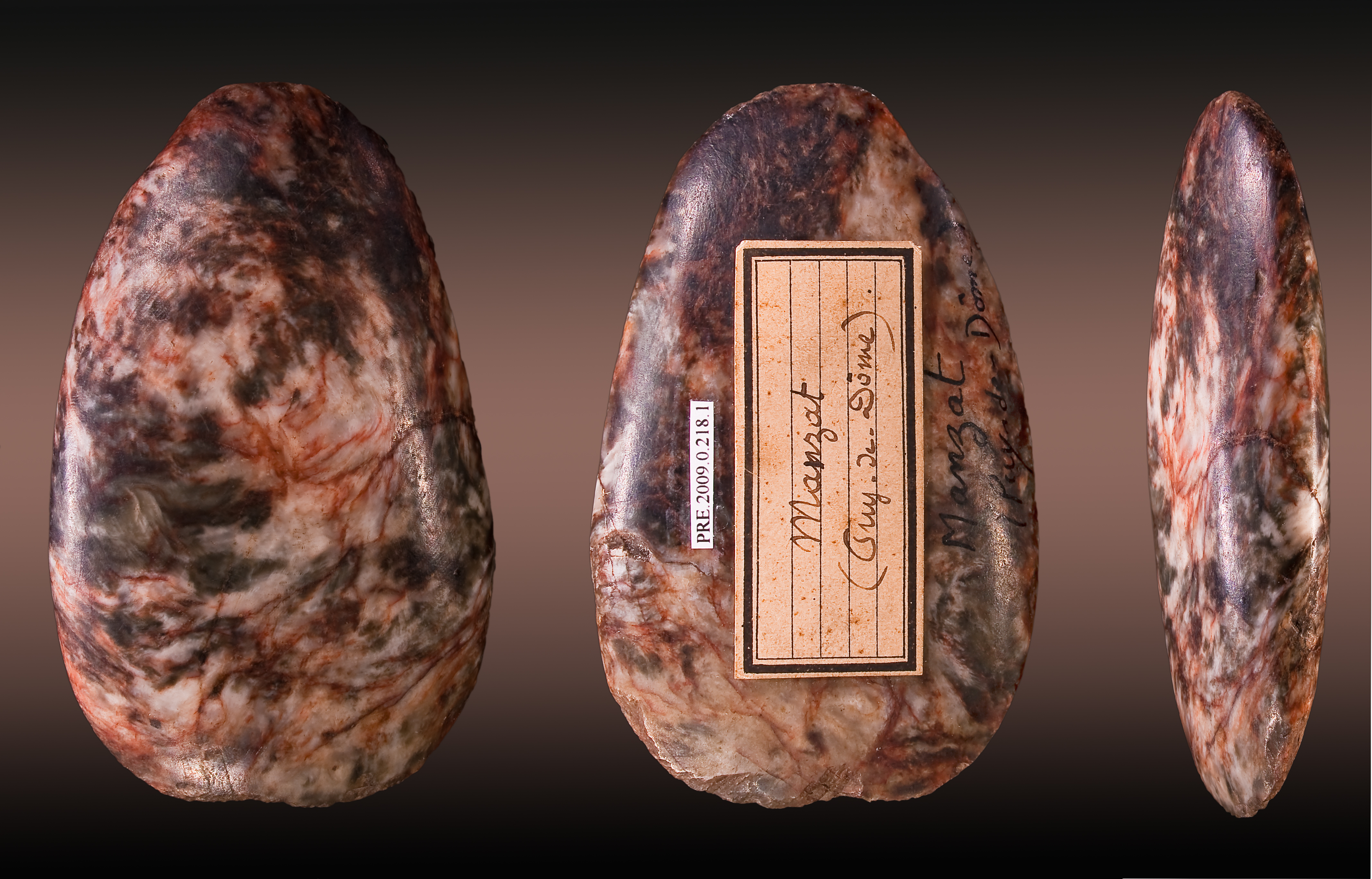 Polished Neolithic axe Manzat, Puy-de-Dôme Department, France Quartz and Sillimanite Museum of Toulouse MNHT PRE.2009.0.218.1 Size (82x51x19mm)